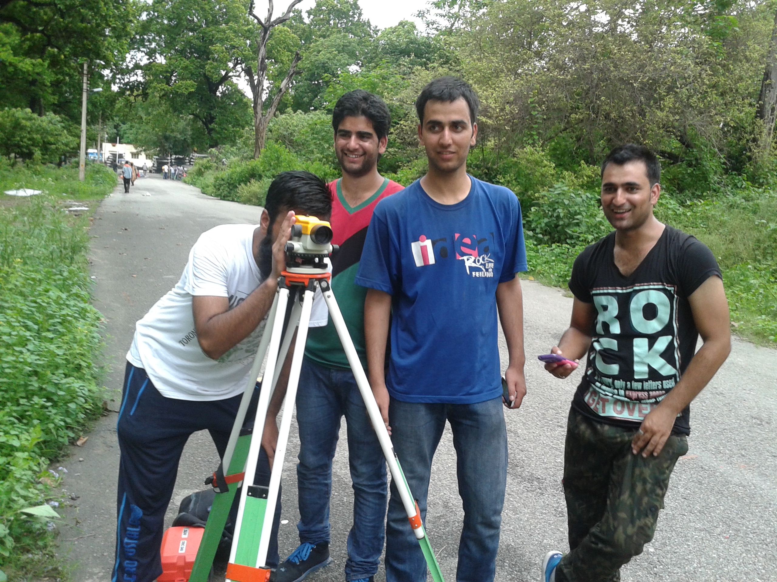 Land Surveying during survey camp in Haridwar